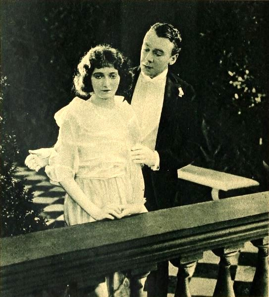 Still from the American silent film The Gay Lord Quex (1919) with Gloria Hope and Tom Moore, page 35 of the December 1919 Shadowland. "Already the two on the balcony had forgotten her."